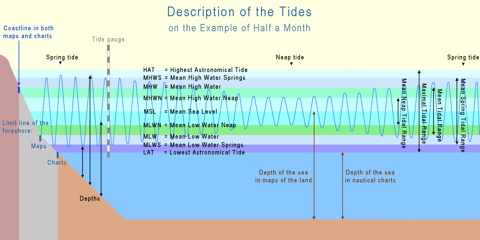 Graphical explication English terms describing tides